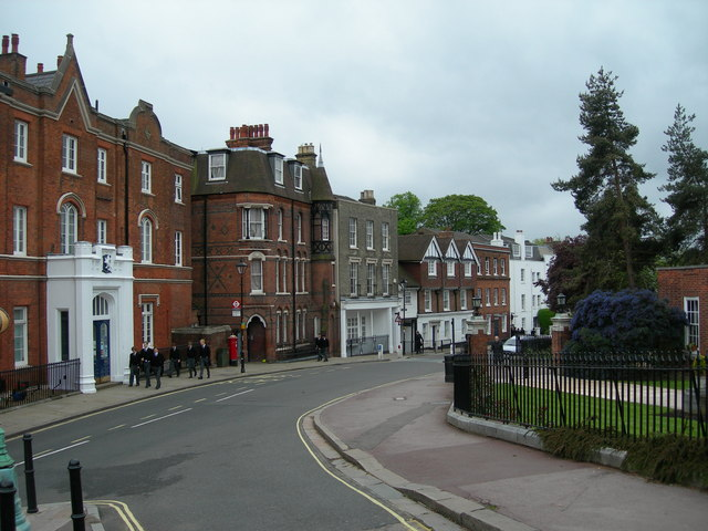 Harrow on the Hill (1) This is at the junction of Church Hill and the High Street. Note the boys in Harrow School uniform -- it is a Sunday morning but they still have to wear it. It is a distinctive one, with long coat tails.